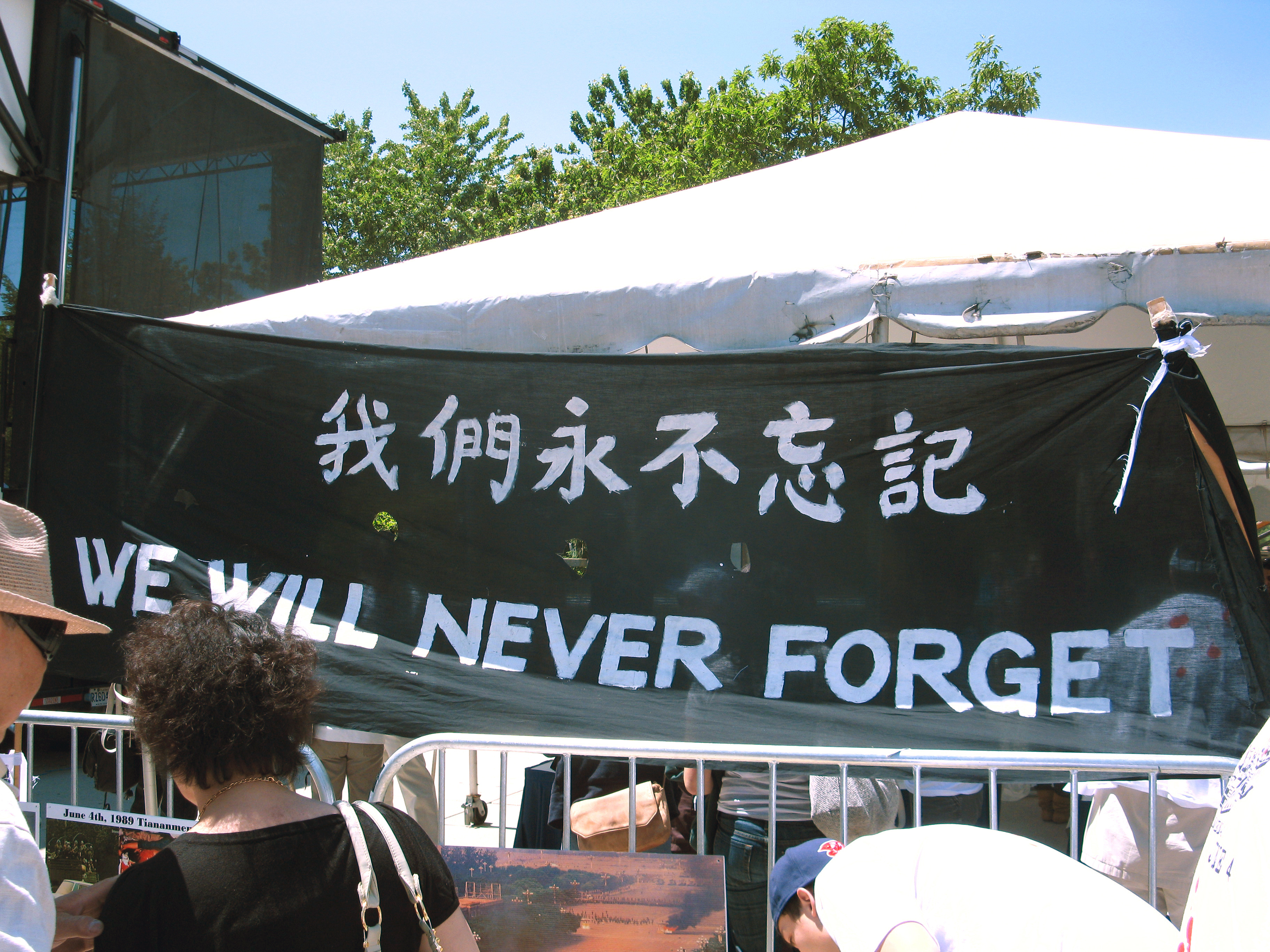 4 June protest in front of City Hall in Toronto against the Tiananmen square massacre.